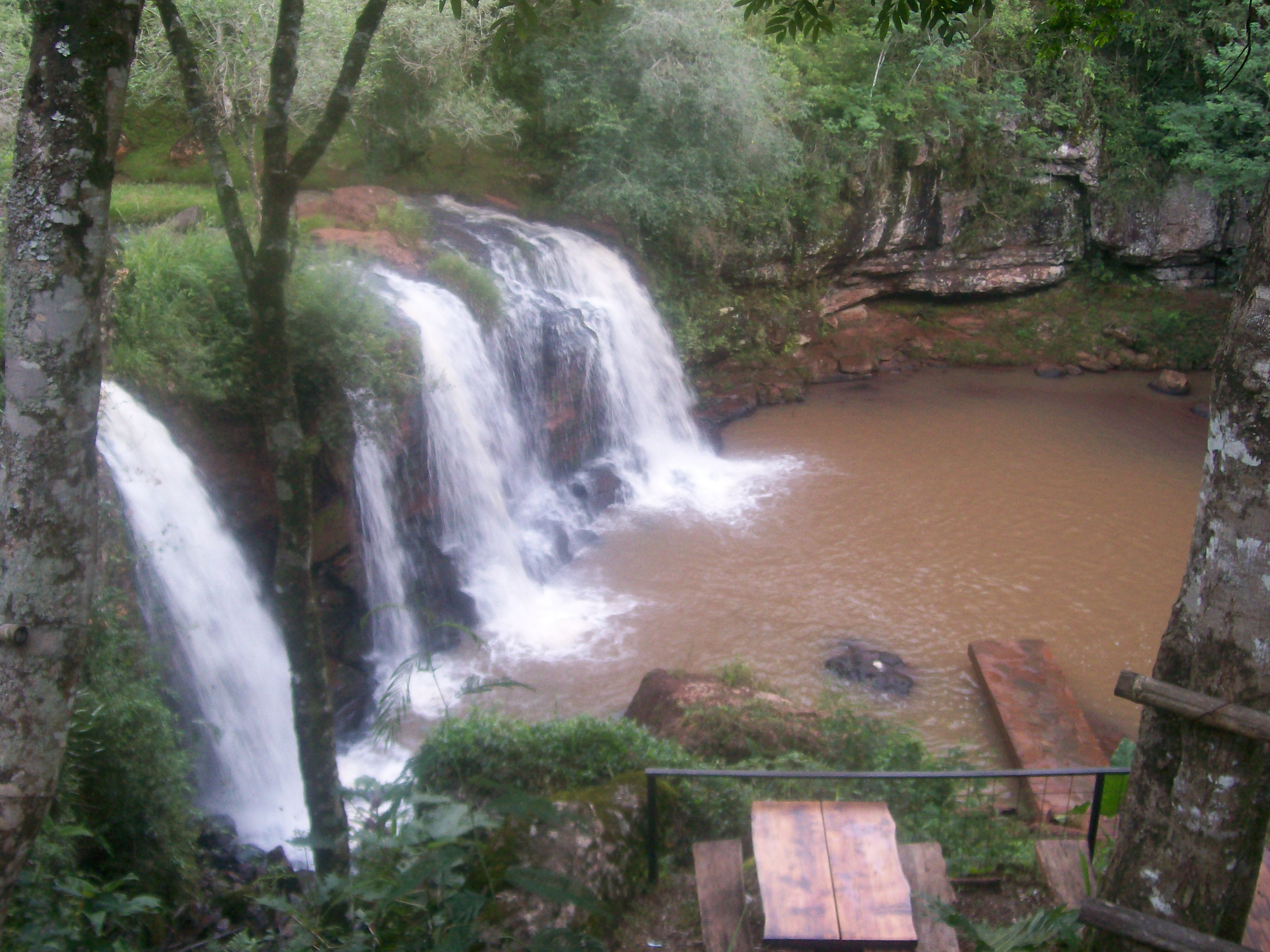 Krysiuk waterfall in rural area of Guaraní, Misiones Province, Argentina. View from the bar that is besides the upper part of the fall.